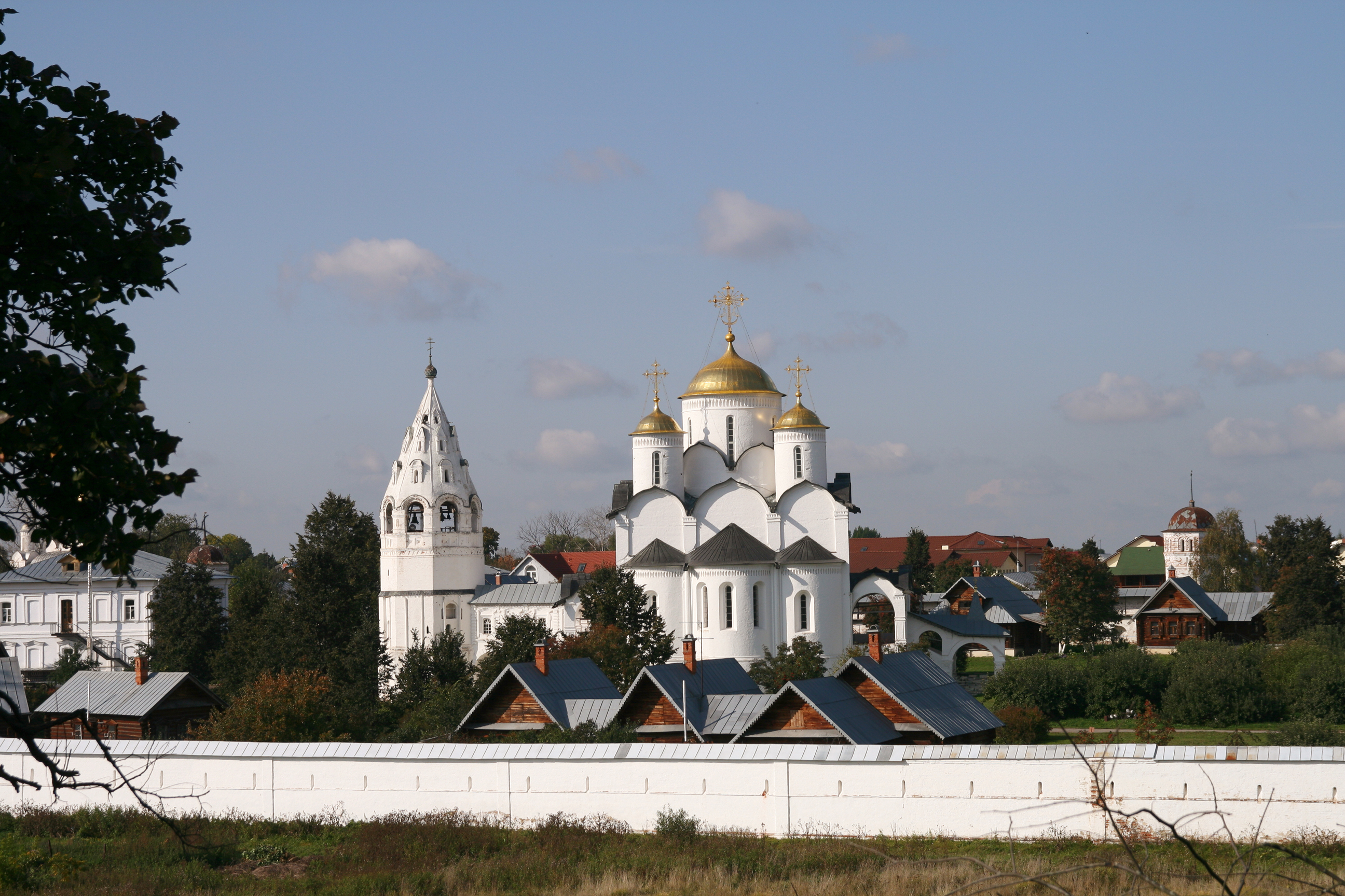 Cathedral of the Intercession with Bell Tower, Convent of Intercession, Suzdal